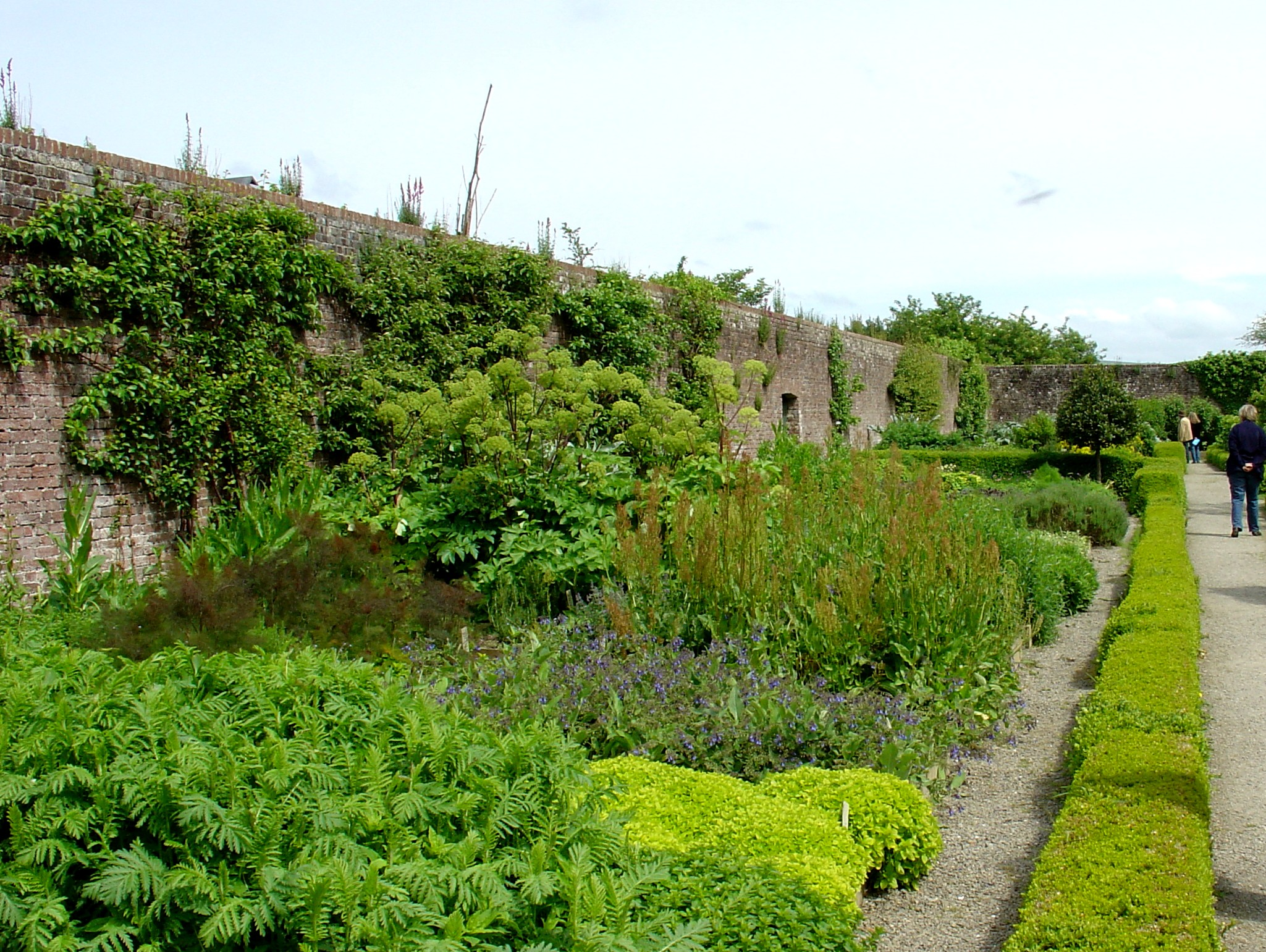 Part of the 18th-century walled garden of Llanerchaeron House, near Aberaeron, Ceredigion, Wales